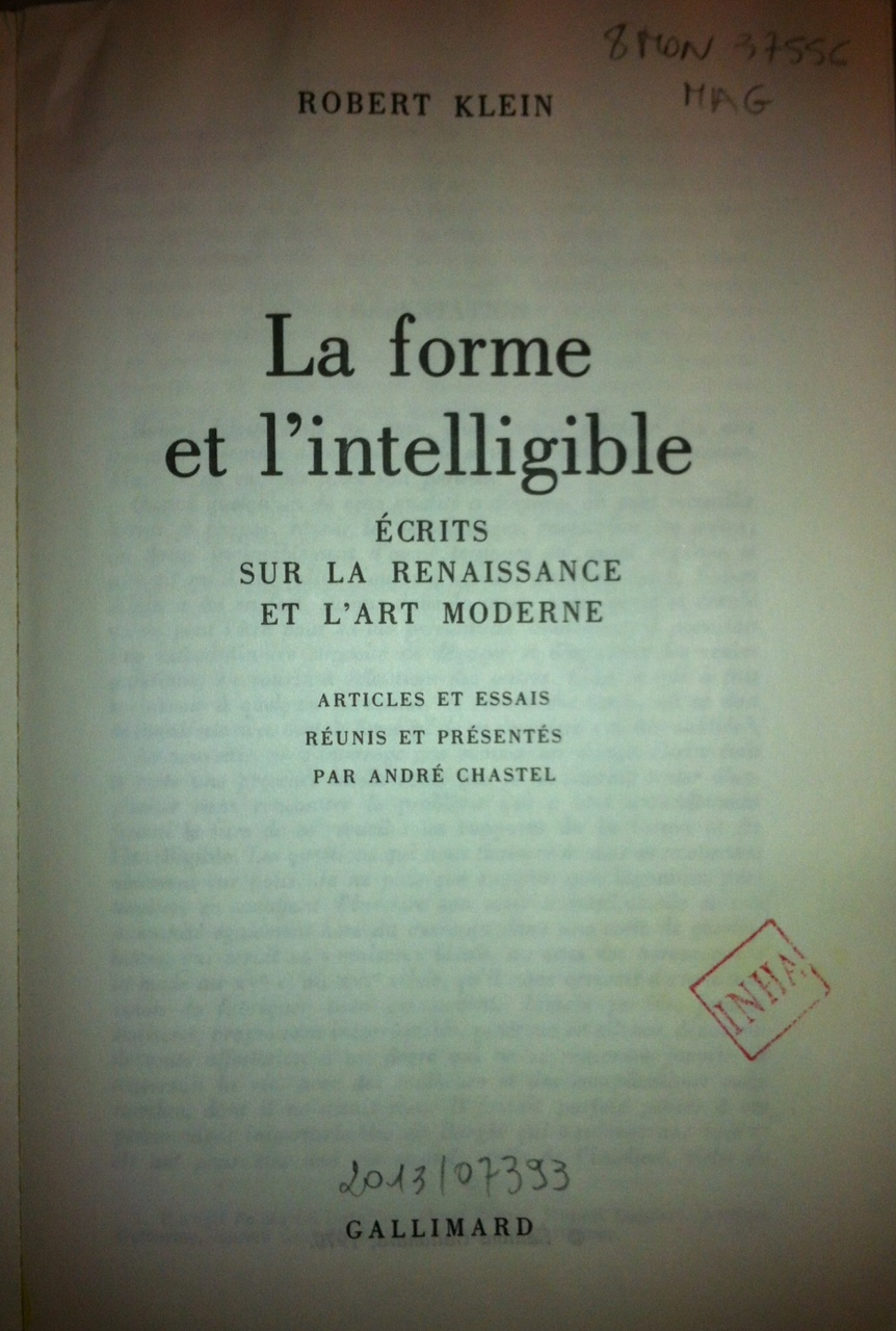 R. Klein, "La forme et l'intelligible", Paris : Gallimard, "Tel", 1970